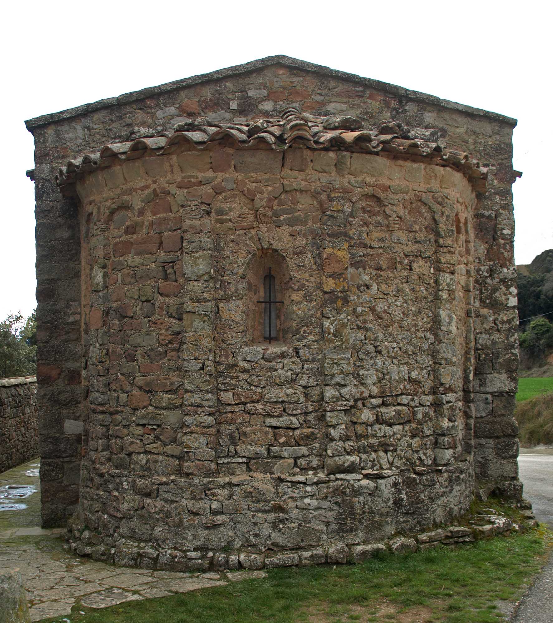 Hermitage of Santa Cecília, XIth century (Catalonia, Spain).